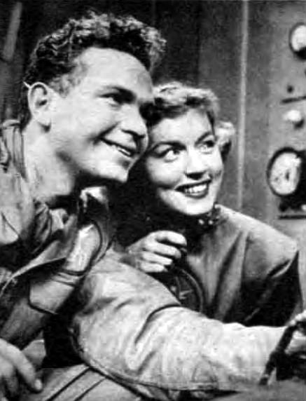 Photo of Frankie Thomas (Tom Corbett) and Margaret Garland (Dr. Joan Dale) from the television program Tom Corbett, Space Cadet.